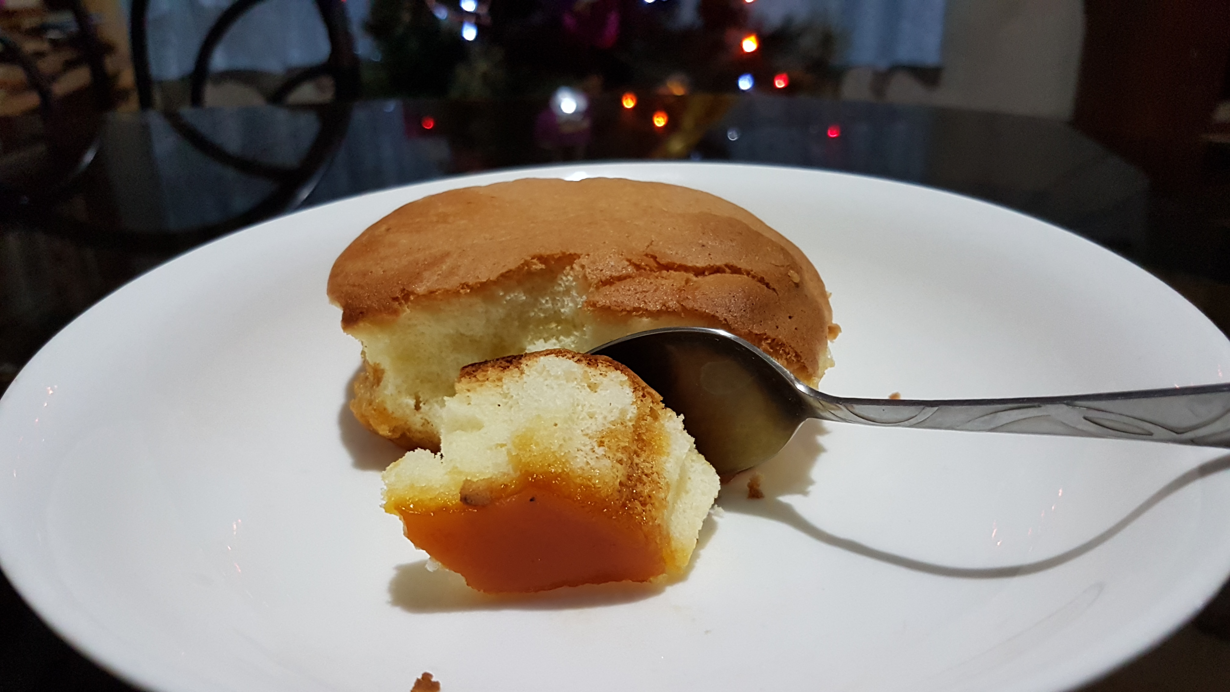 Custard Mamon, mamon with a leche flan base (Philippines)